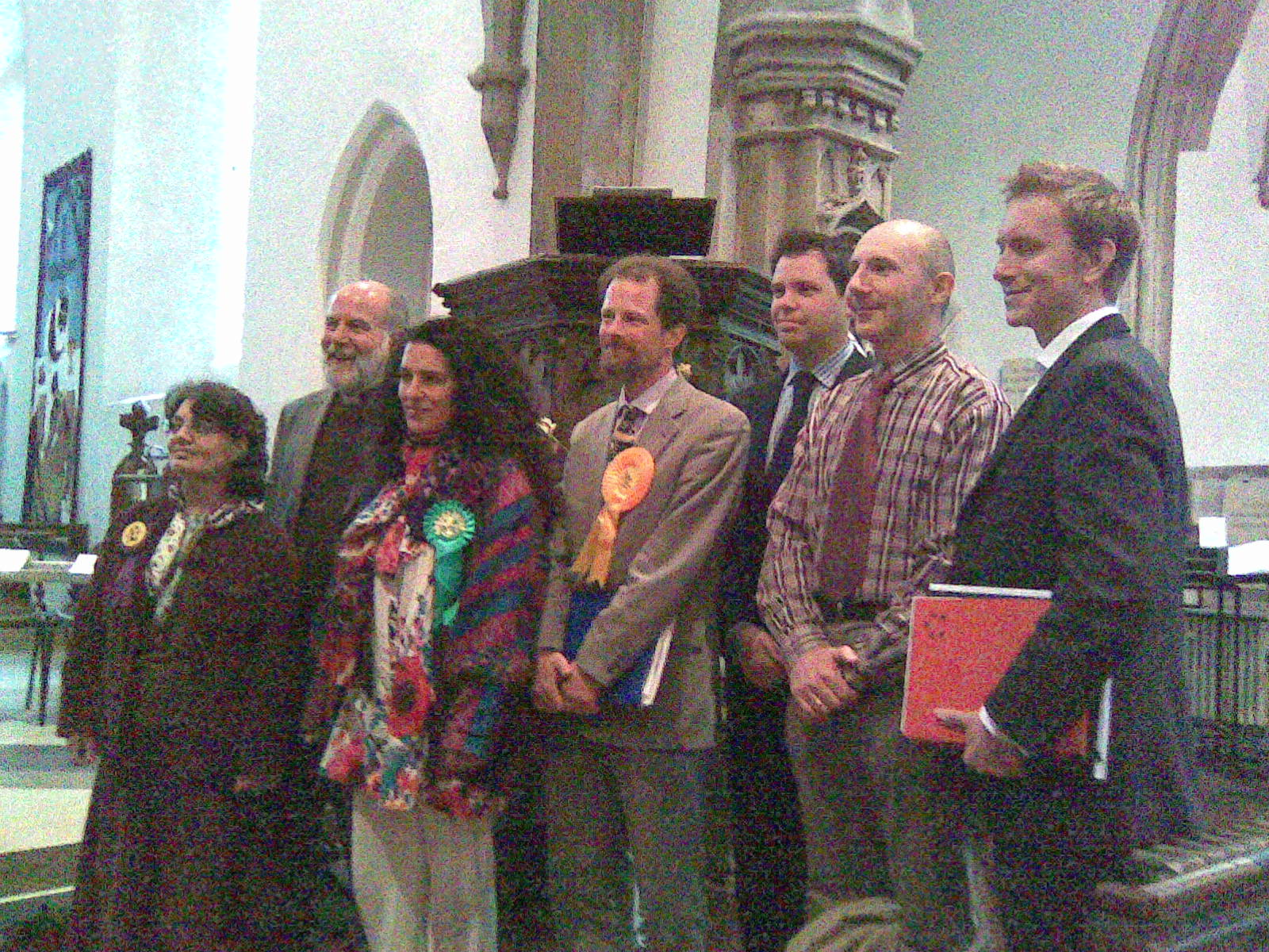 Oxford East parliamentary election 2010 candidates, standing, at hustings St Michael-at-the-Northgate Church (Andrew Smith represented by colleague Richard Stevens) with chair the Very Revd Bob Wilkes.